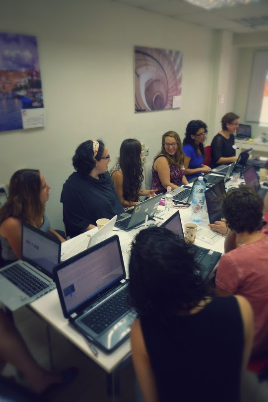 Wiki Women Editors Project - Opening Meeting